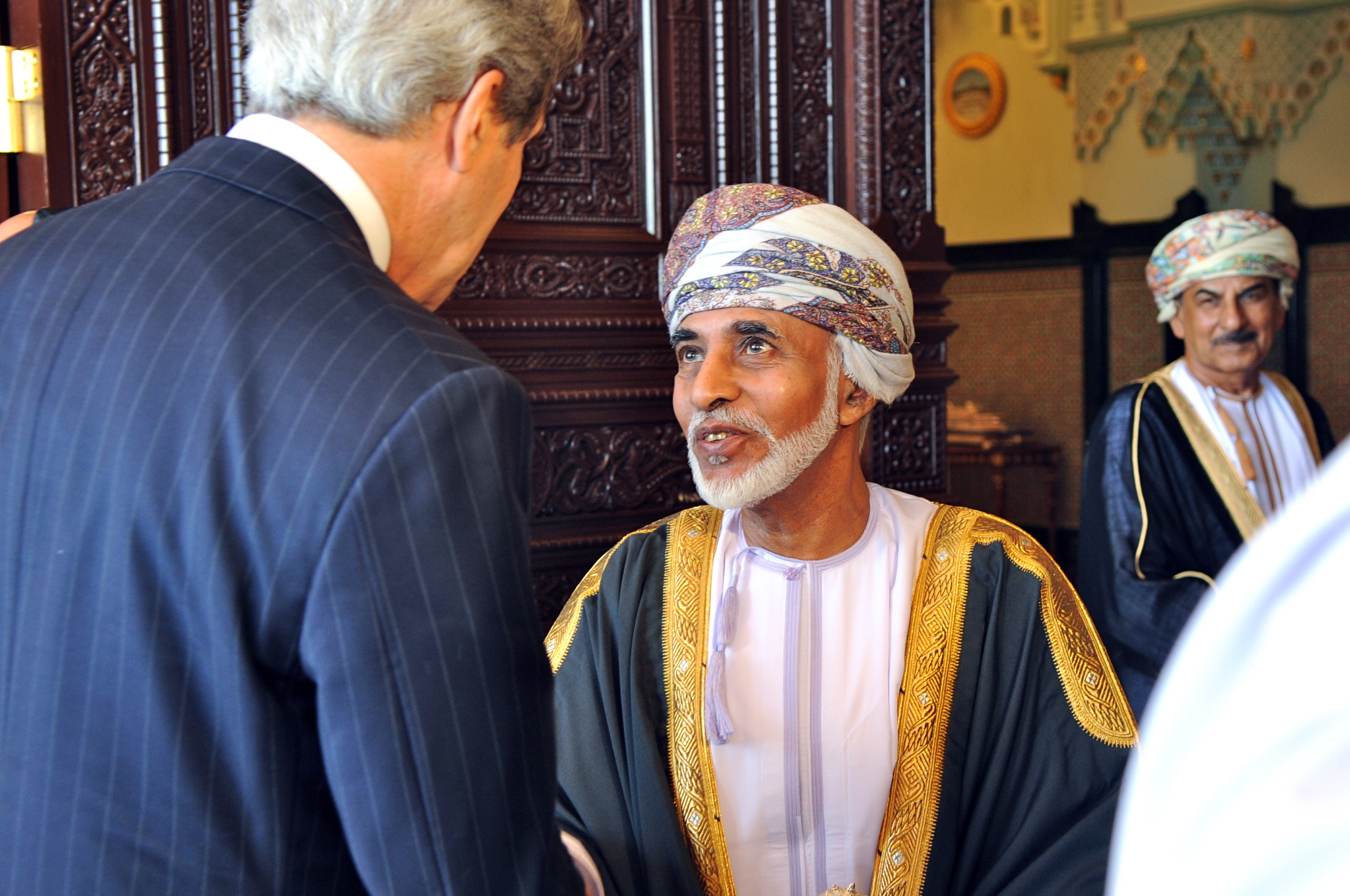 U.S. Secretary of State John Kerry meets with Sultan of Oman Qaboos bin Said Al Said in Muscat, Oman, on May 21, 2013. [State Department photo/ Public Domain]